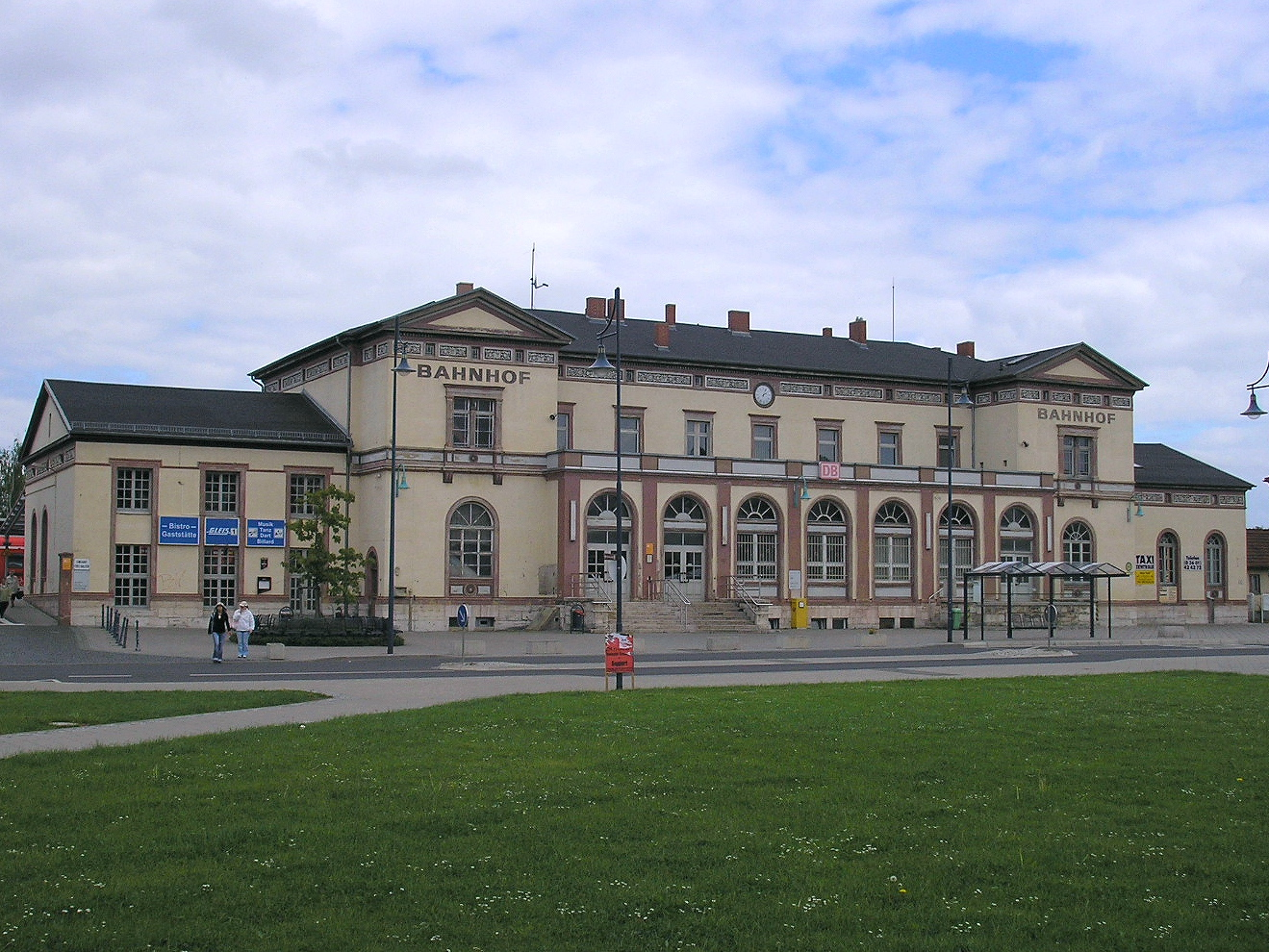 Train station in Mühlhausen/Thüringen.